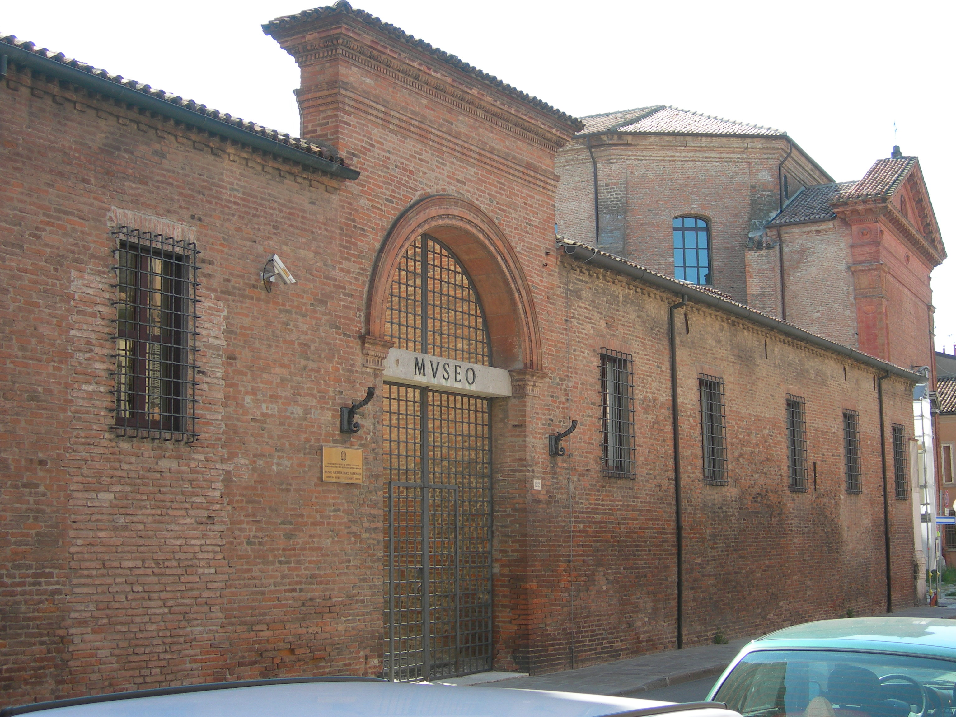 Costabili Palace